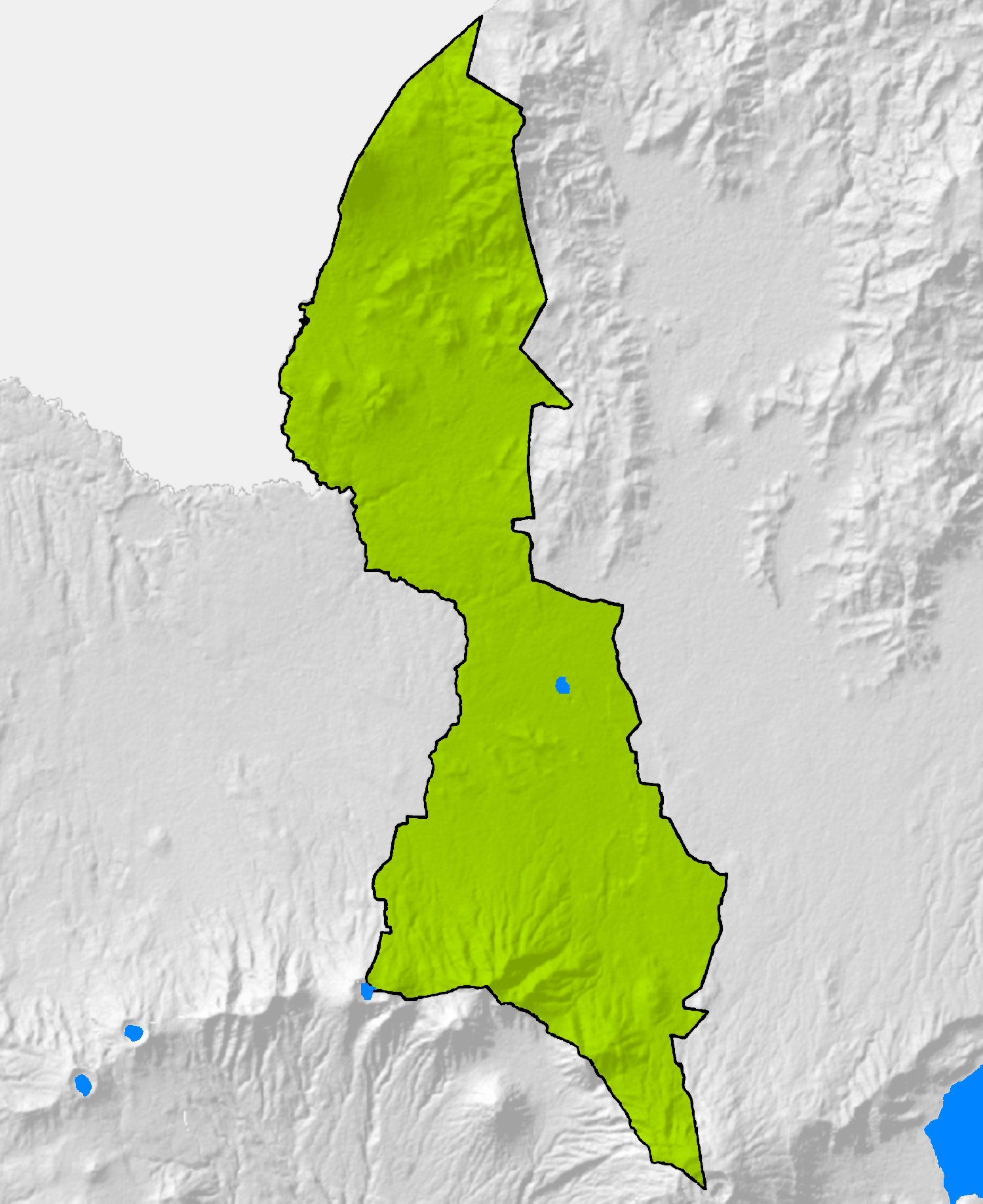 Relief map of the municipality of Chalchuapa, Santa Ana, El Salvador